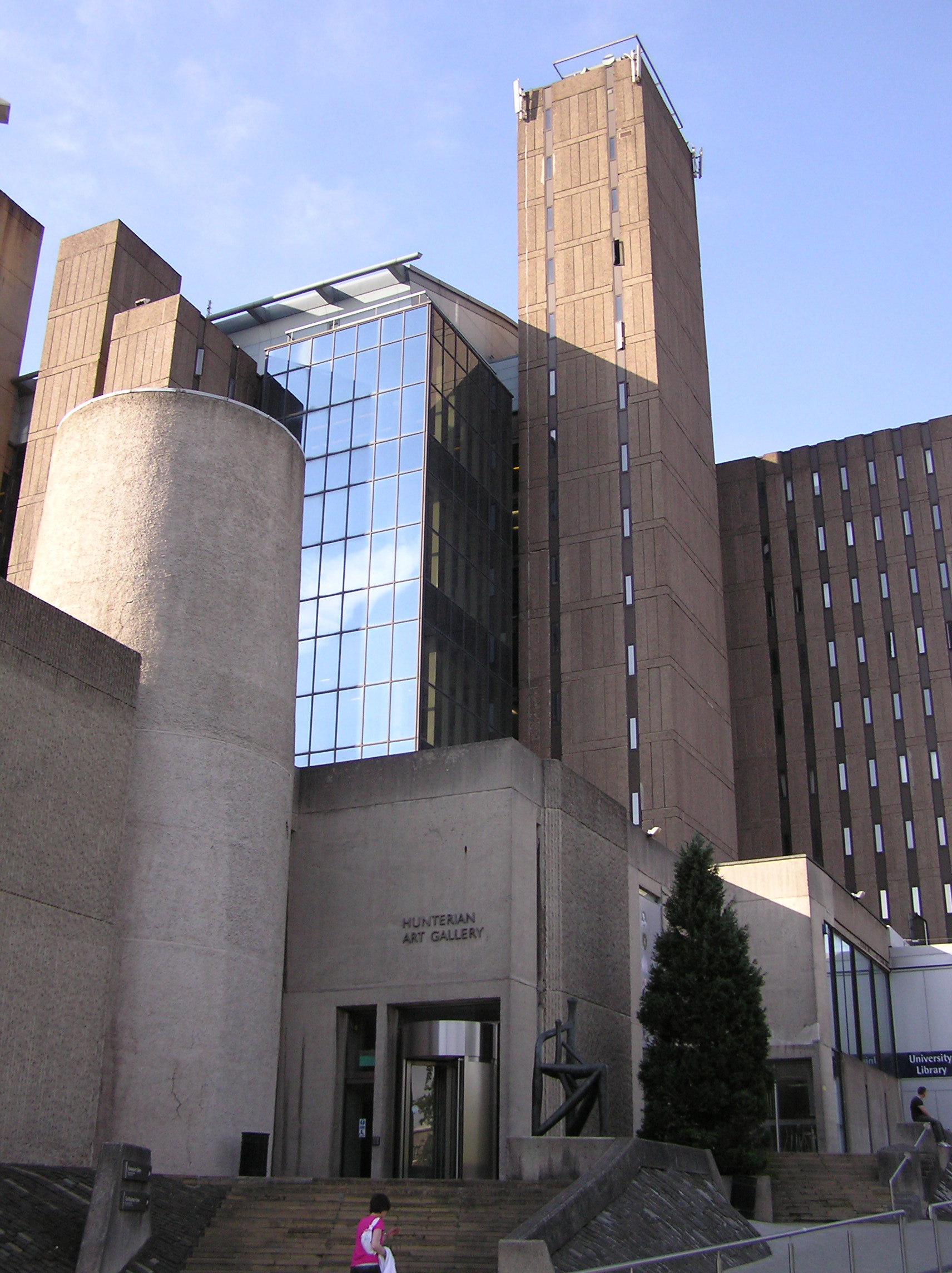 The library at Glasgow University in Glasgow, Scotland Taken by user:Finlay McWalter on the 3rd of September 2005